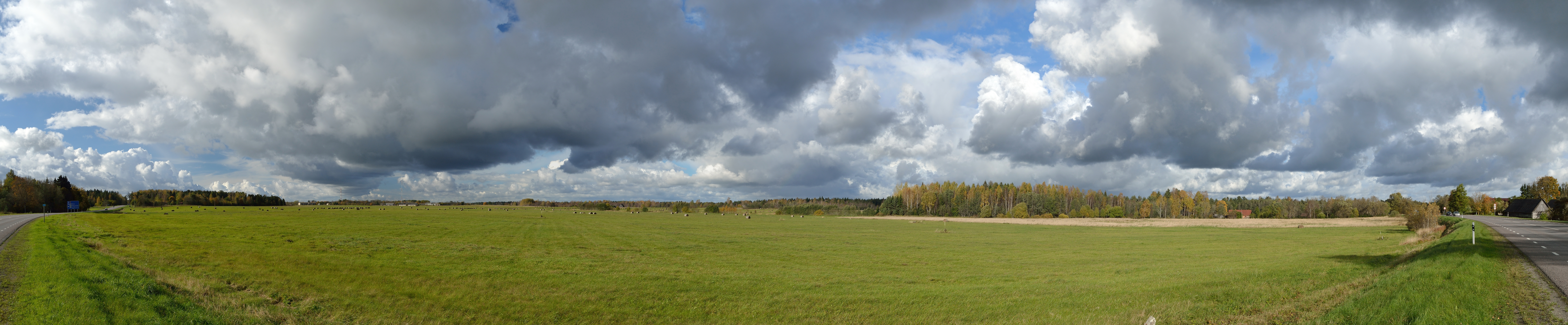 Meadow in Laitse village